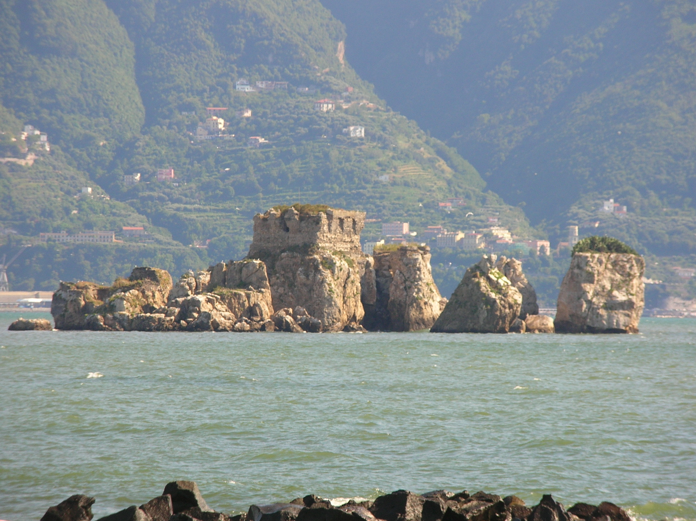 The island seen from Torre Annunziata Rovigliano